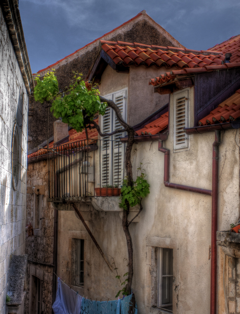 Croatia Vine